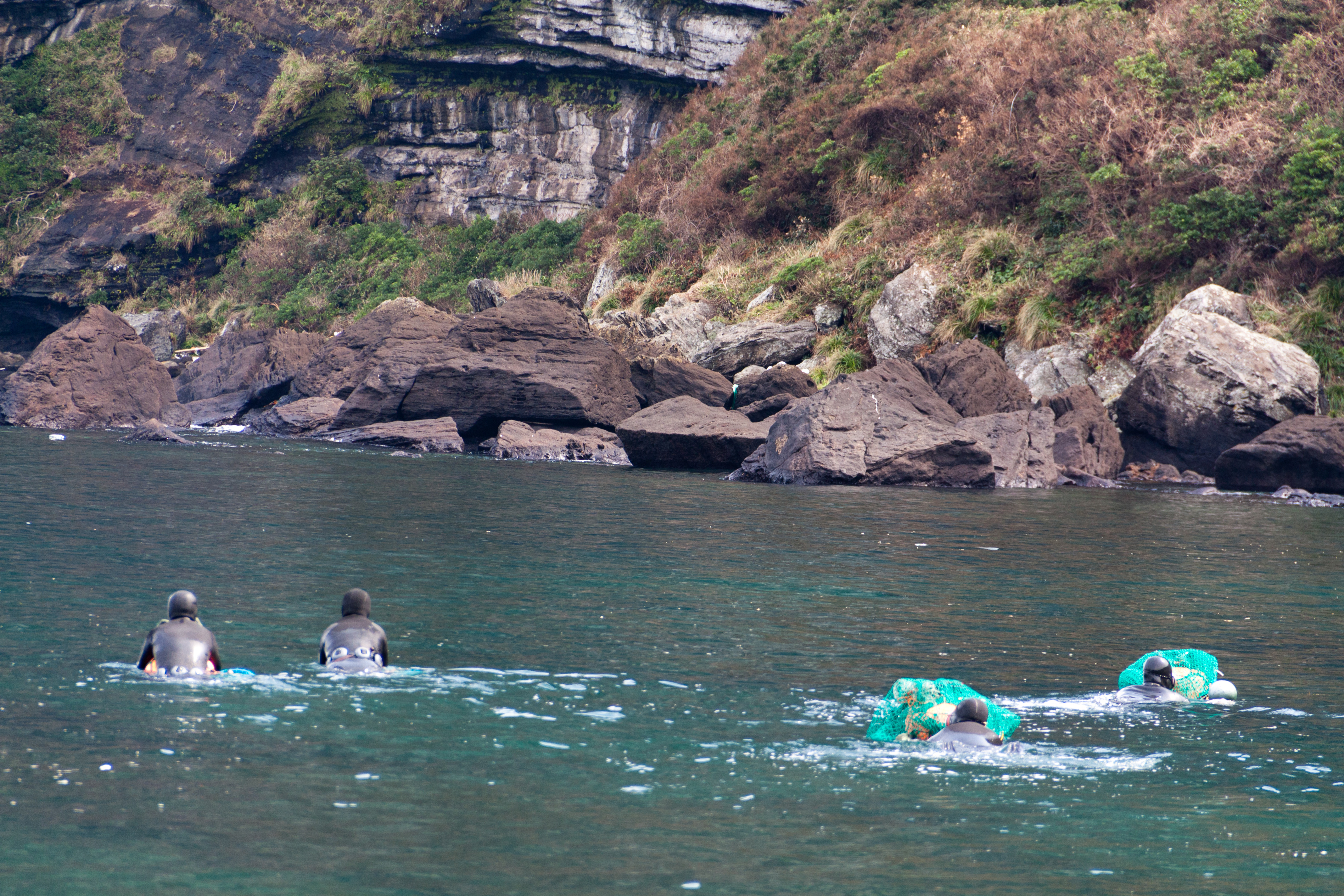 Hanyeo women, Jeju